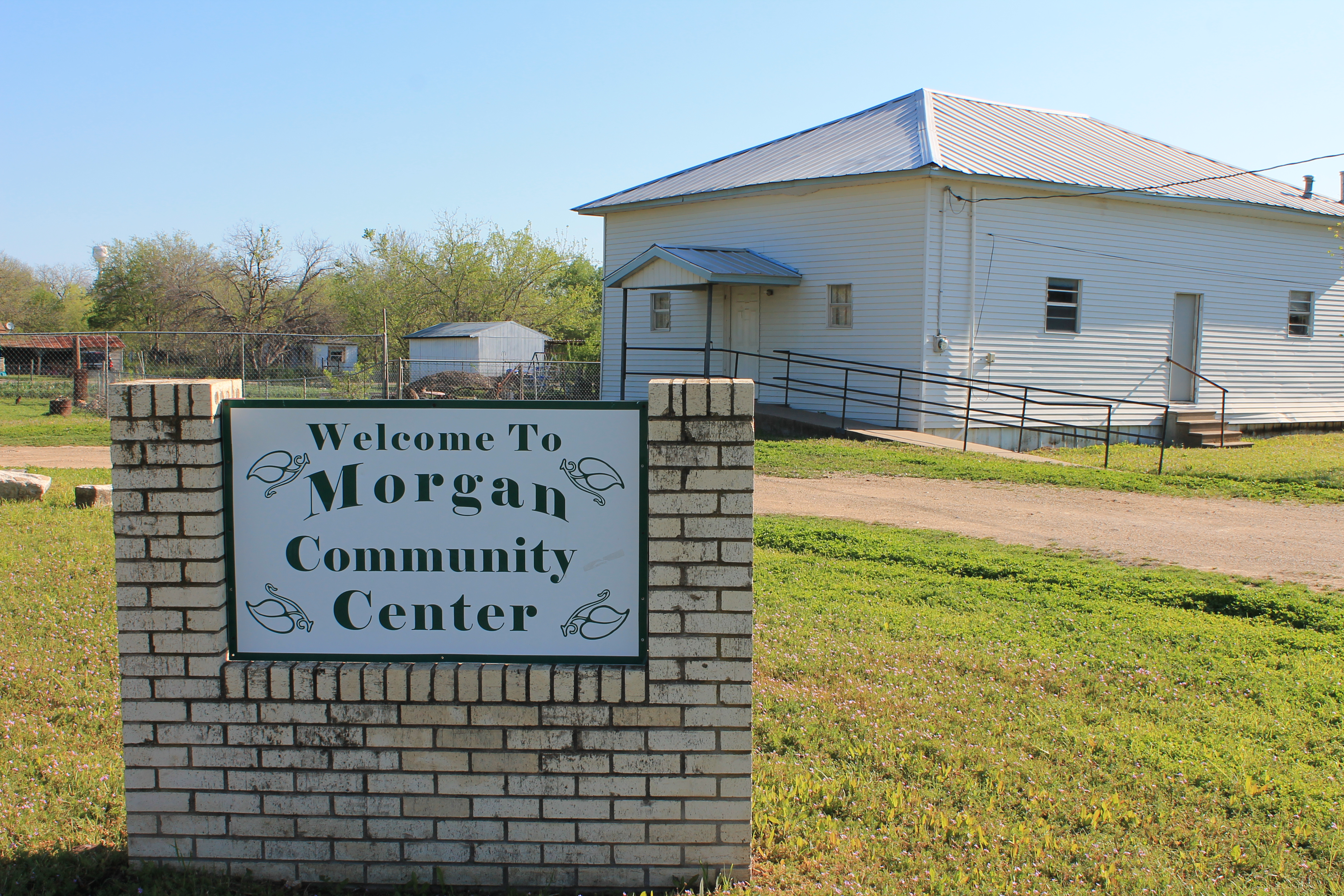 Morgan Community Center